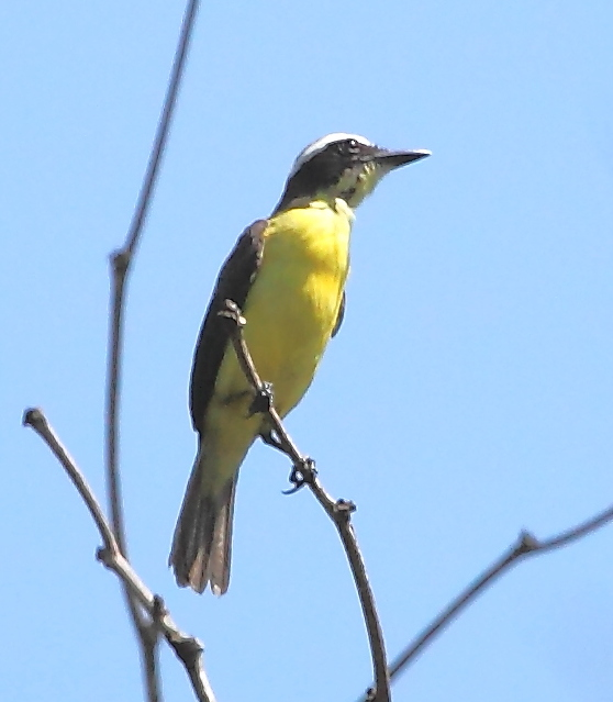 Yellow-throated Flycatcher at Manaus - AM - Brazil